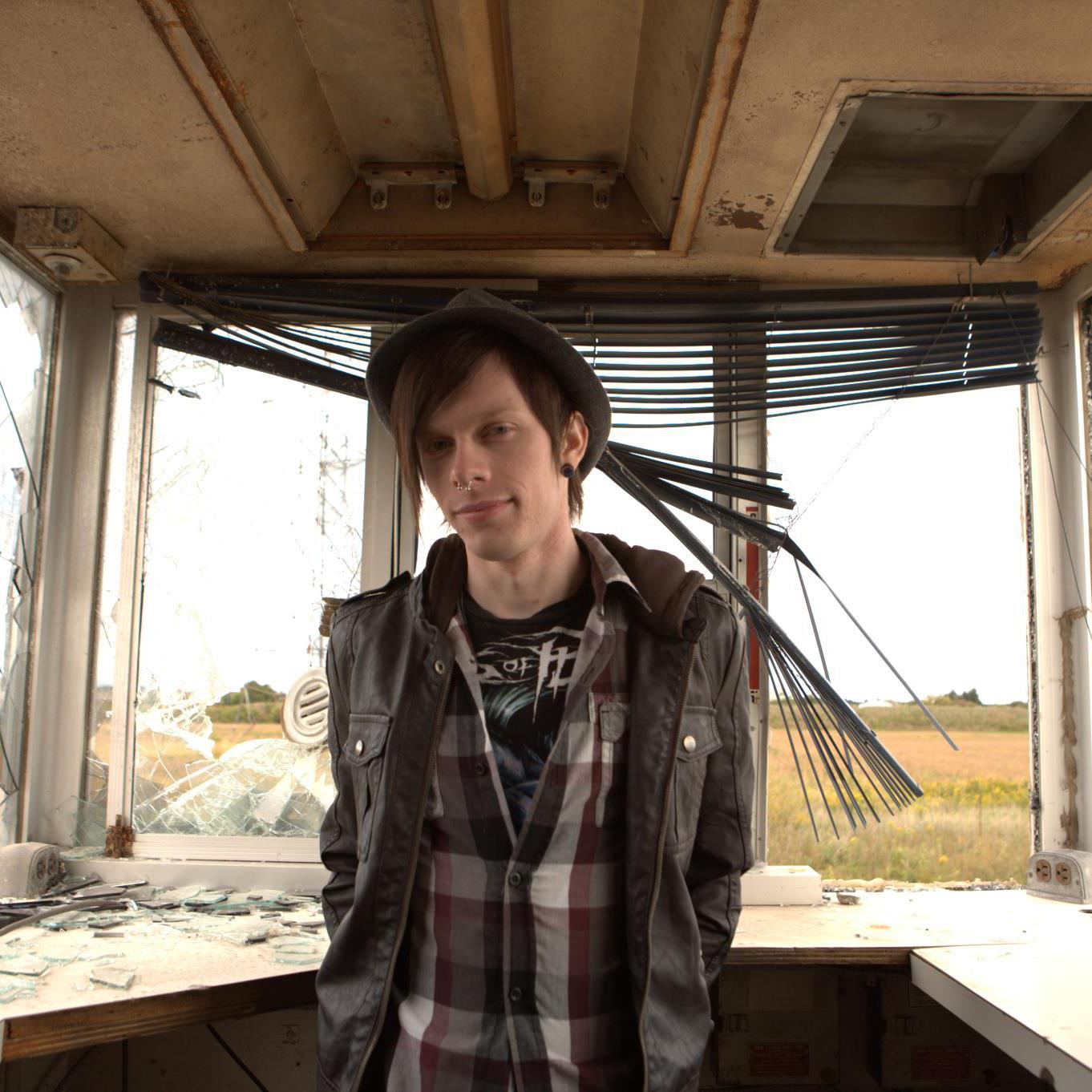 varien promo picture from facebook